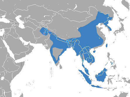 Leopard Cat (Prionailurus bengalensis) range